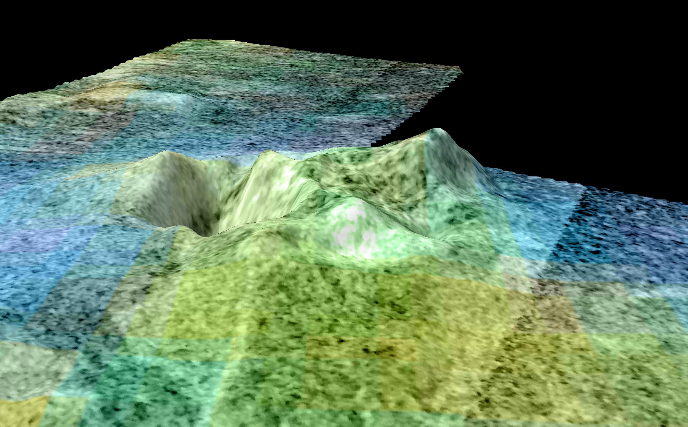 Doom Mons and Sotra Patera, apparent cryovolcanic features on Titan. Topography has been vertically exaggerated by a factor of 10. The false color shows different surface material compositions as detected by Cassini's visual and infrared mapping spectrometer.